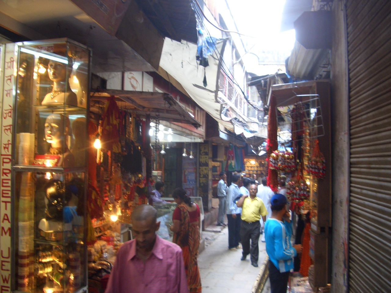 Kashi vishwanath temple street